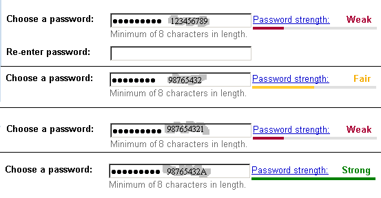 Gmail registration screenshots